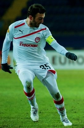 Vassilios Torossidis